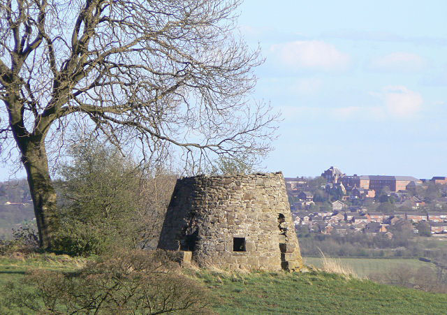 Fritchley Windmill The ruined roundhouse of a post mill standing on a knoll above the Amber Valley, where it would catch the wind well from all directions. In the background is the town centre of Ripley.